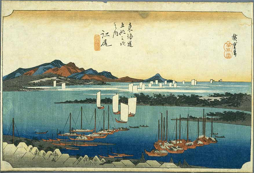 Ejiri on the Tokaido, ukiyo-e prints by Hiroshige